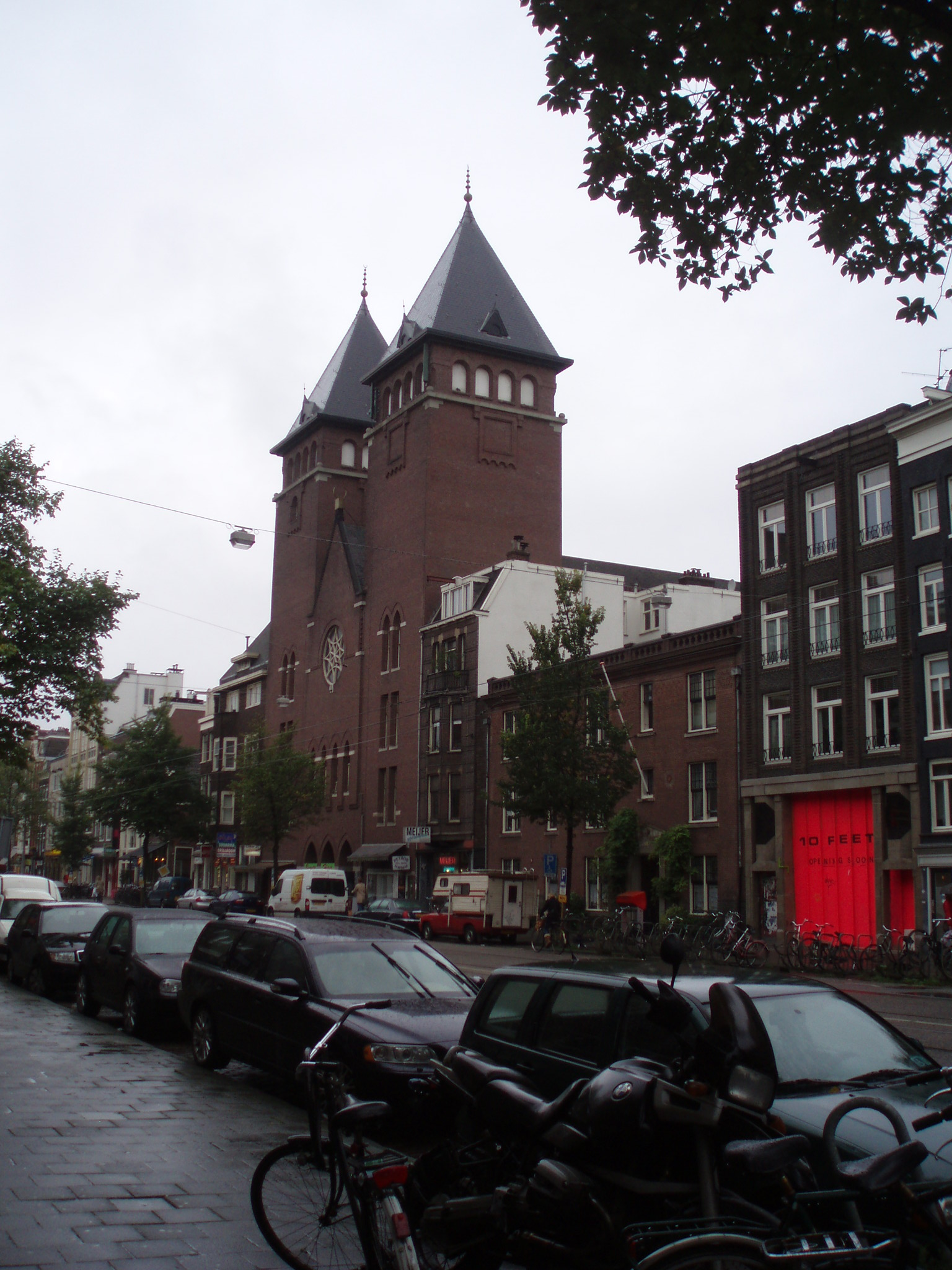 Fatih Mosque, Amsterdam, Netherlands, former catholic church